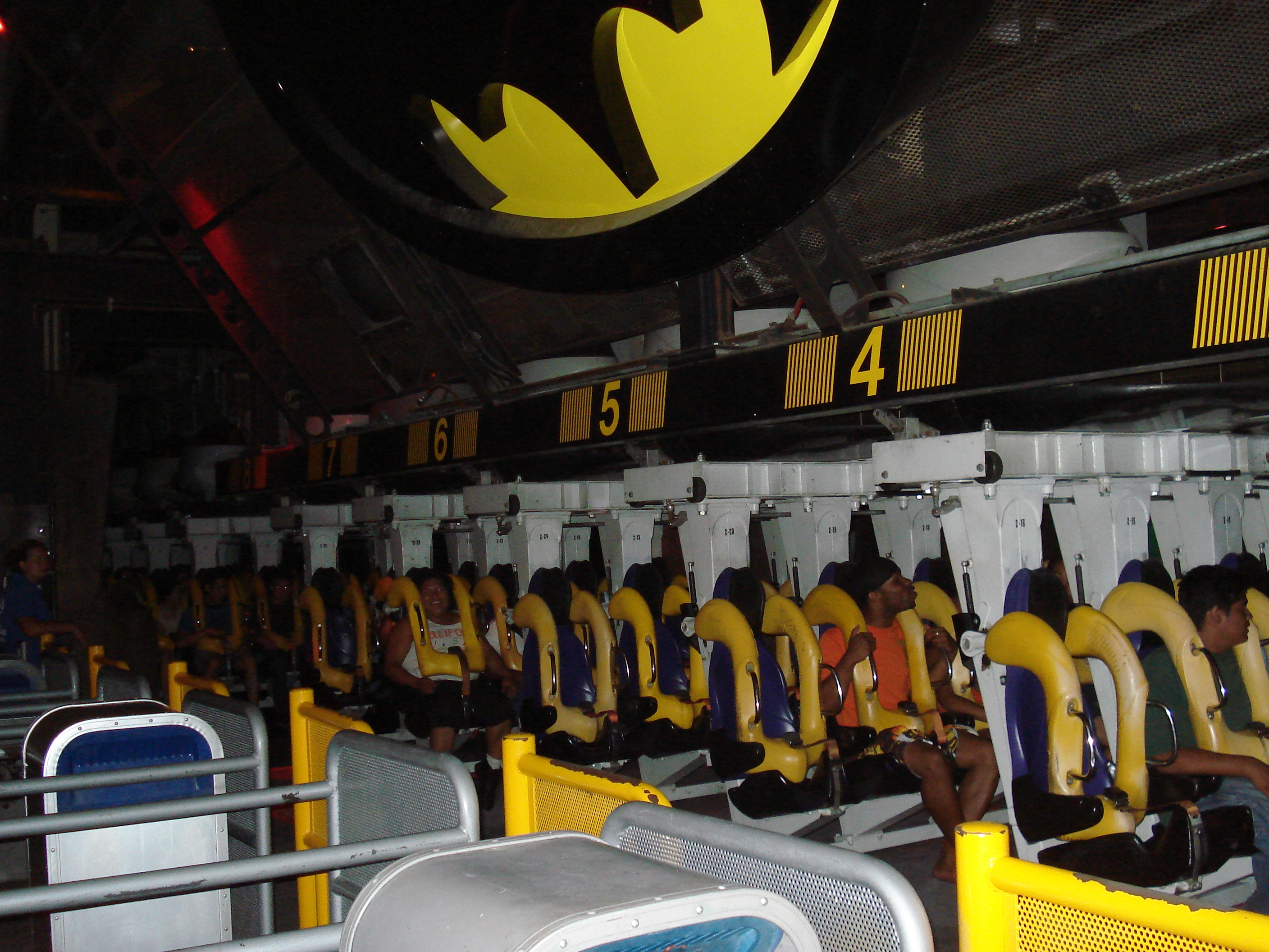 Batman: The Ride at Six Flags Magic Mountain